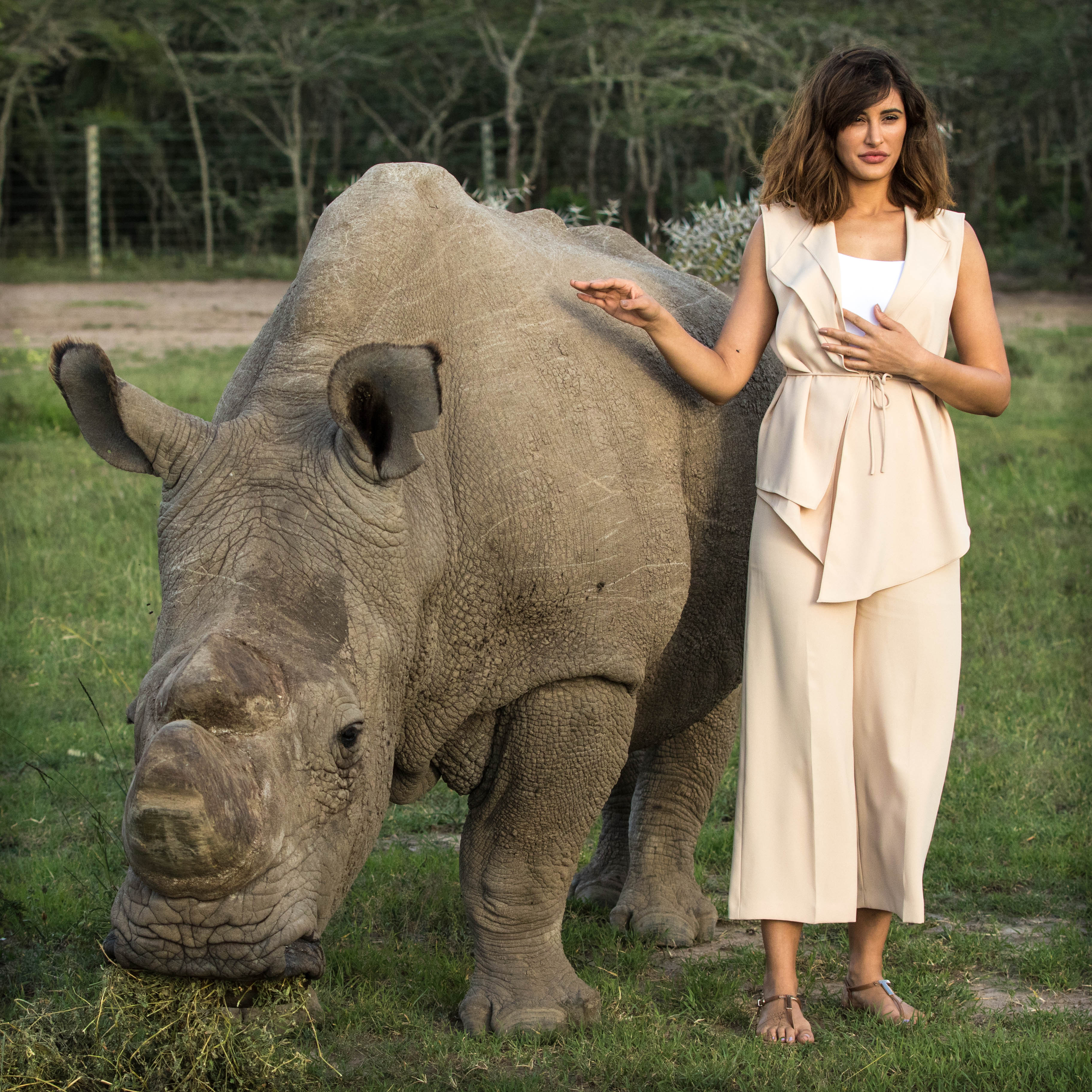 KENYA, Laikipia: In a photograph taken 22 May 2015 by Make It Kenya and made available 25 May, US-born model and Bollywood actress Nagris Fakhri stands with ‘Sudan’, the world’s last remaining male northern white rhino at Ol Pejeta Conservancy, a 90,000-acre conservancy in central Kenya which has made great strides in protecting and increasing rhino populations in Kenya. Fakhri was in the East African country to help raise awareness and support around conservation efforts to save rhinos from extinction. MANDATORY CREDIT: MAKE IT KENYA PHOTO / STUART PRICE.